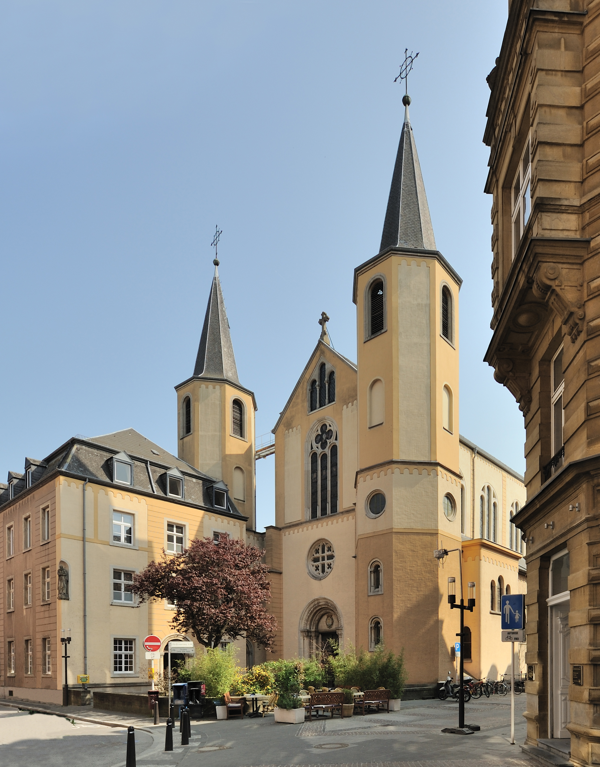 Luxembourg City: Saint-Alphonse church in the City centre, rue des Capucins.